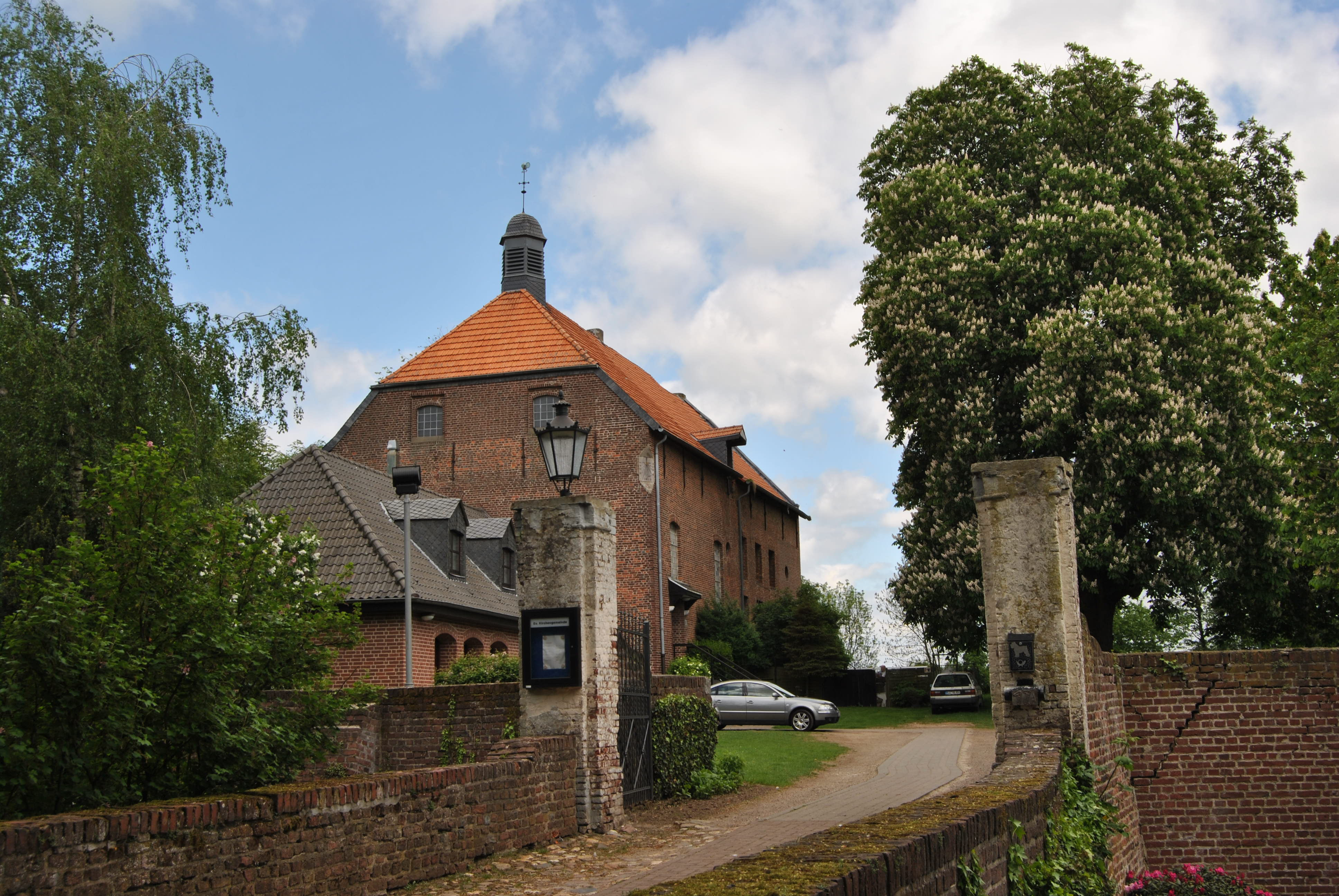 Kevelaer (North Rhine-Westphalia, Germany) – village Kervenheim – castle with gate This image shows a heritage building in Germany, located in the North Rhine-Westphalian city Kevelaer (no. 11). This photograph was taken with a Nikon D3000